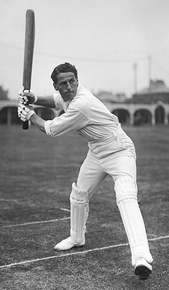 Kenneth Lotherington Hutchings, Kent and Worcestershire, and England, circa 1905.